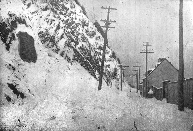 Site of Près-de-Ville Barricade, Champlain Street, Looking Townward